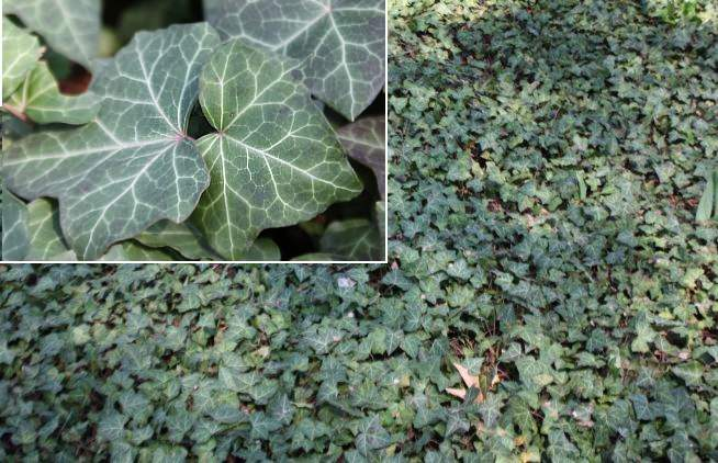 Ivy (Hedera helix) on the ground, as substitute lawn, April 2009, Czech republic Česky: Břečťan(Hedera helix).Půdokryvná dřevina, náhrada trávníku. Duben 2009. Brno, ČR. Popínavá vytrvalá rostlina